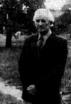 Heinrich-Bell (1907-1986)